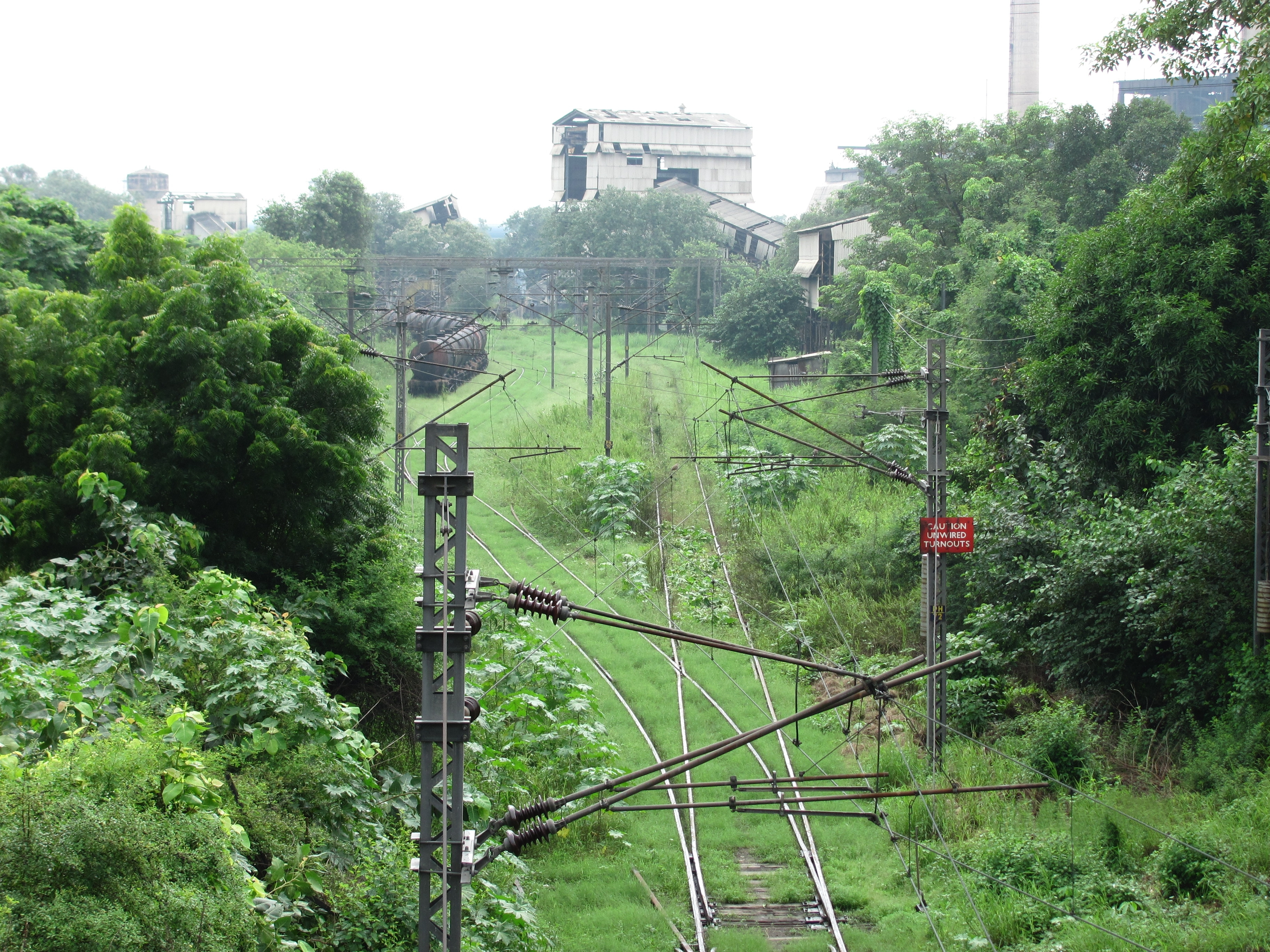 This has been clicked near ITO. It was raining slowly and steadily and i found the landscape very beautiful.